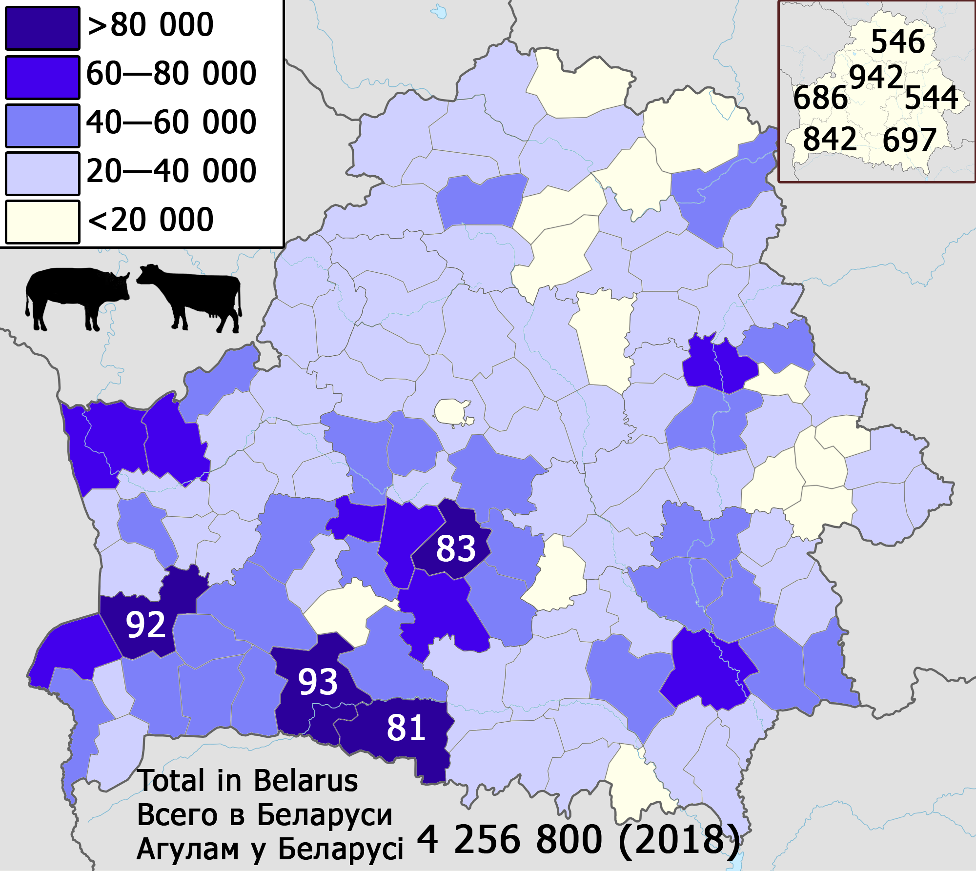 Number of cattle in Belarus, 2018